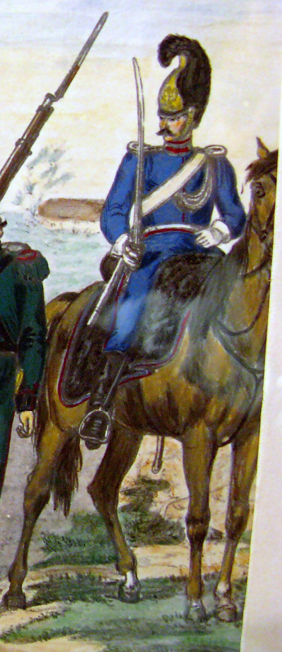 Carabinier à cheval of Polish Army of November Uprising